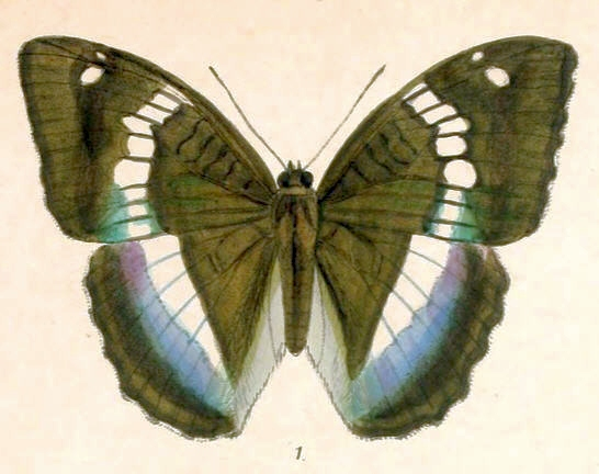 Labranga duda